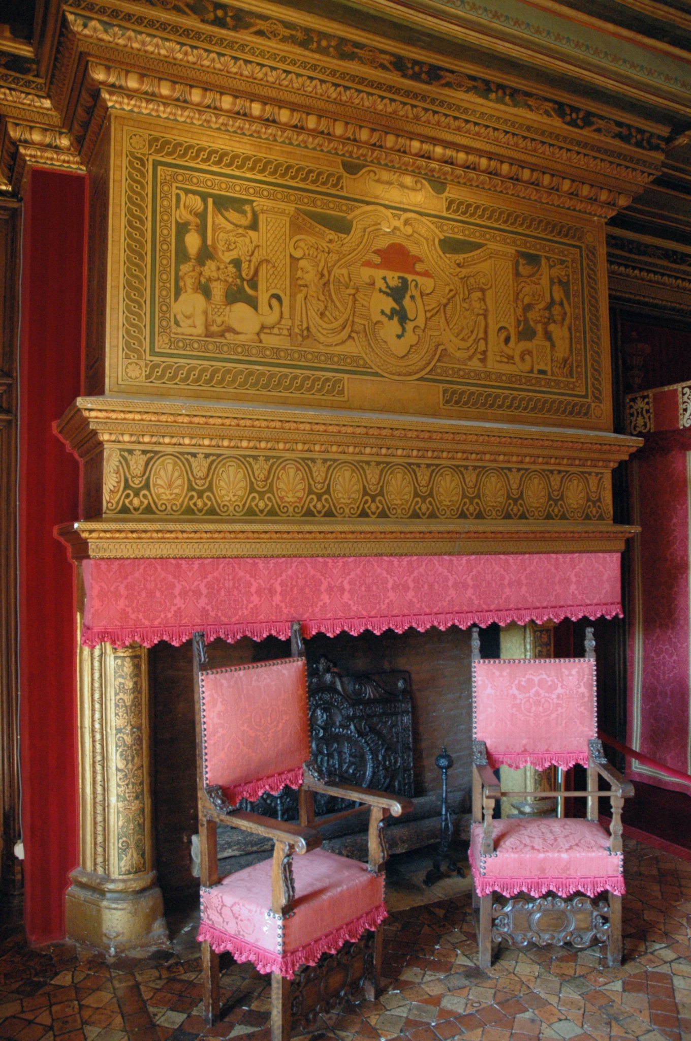 Fireplace in César de Venôme's room in the château de Chenonceau